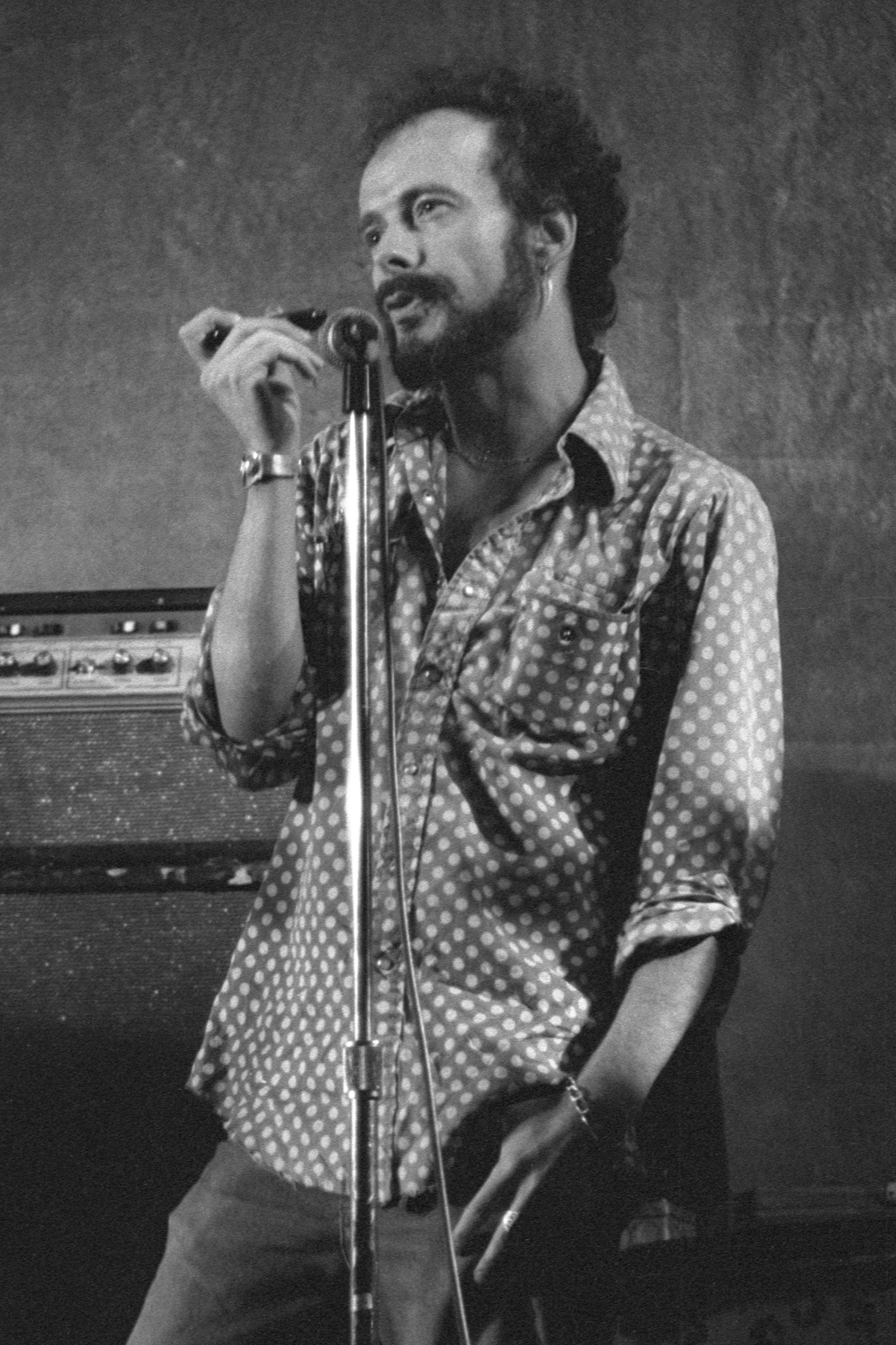 Tony Glover performing at The Union Bar, Minneapolis, 1982